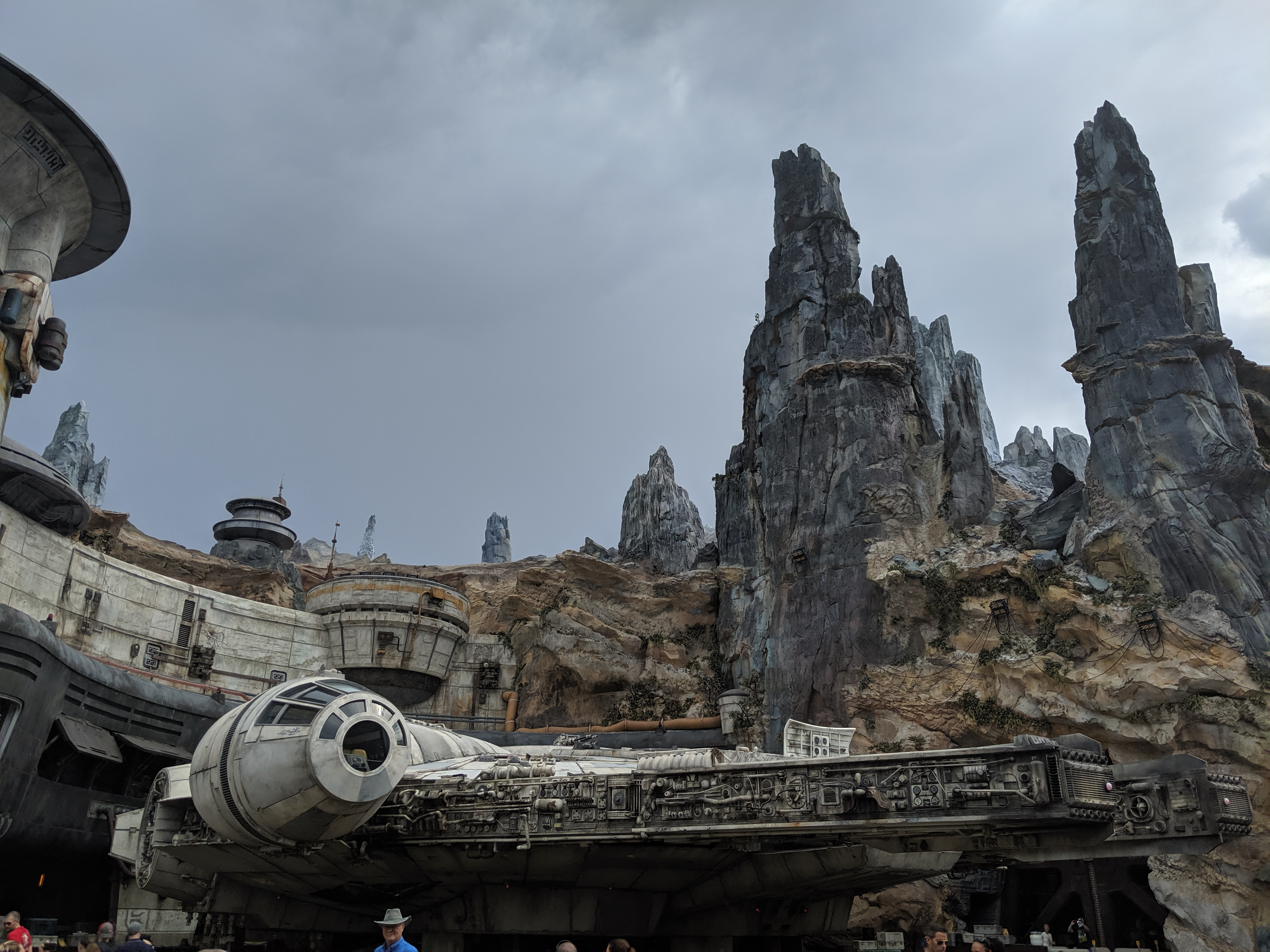 The Millennium Falcon in front of Millennium Falcon: Smugglers Run